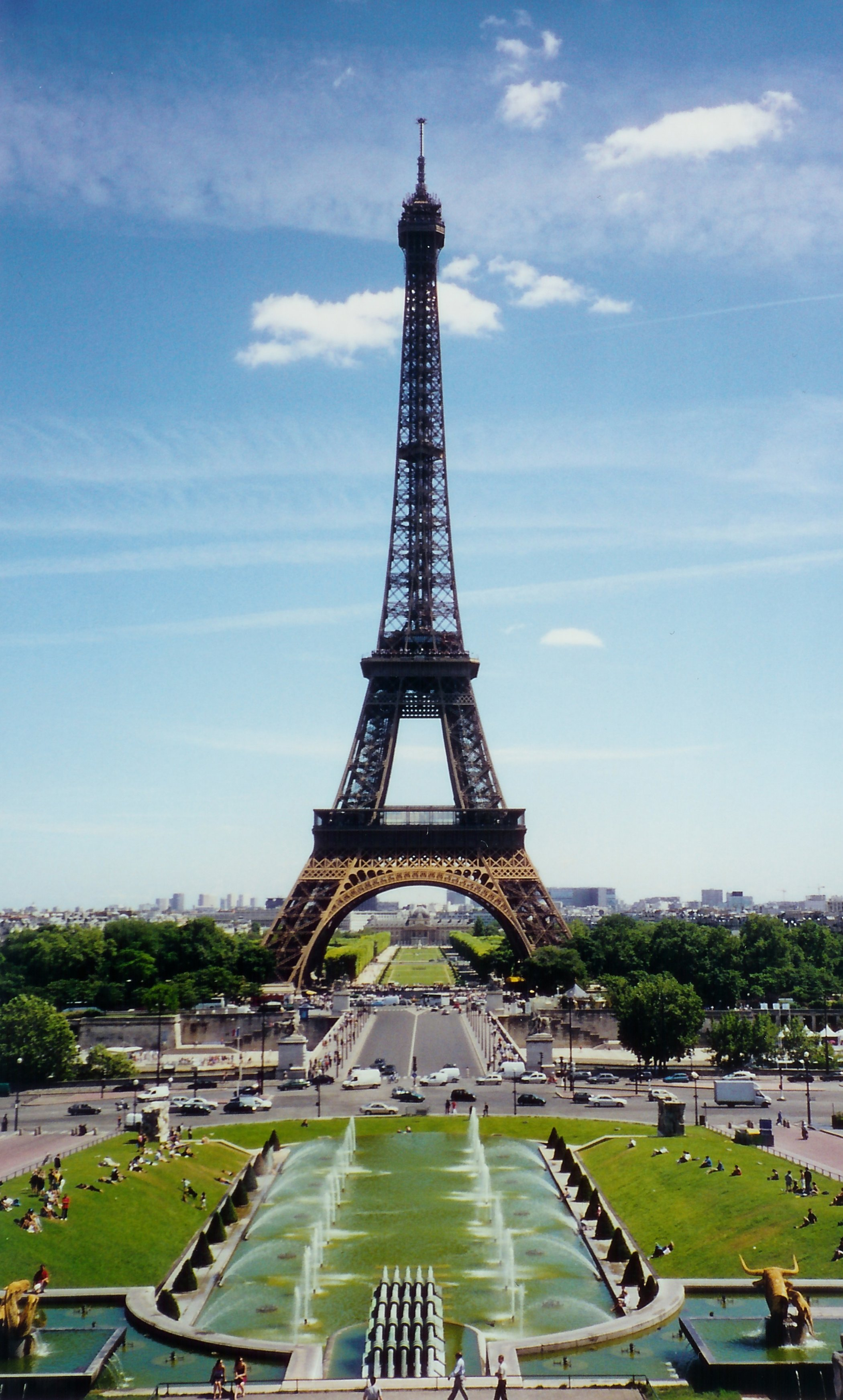 The Eiffel Tower (Tour Eiffel) as seen from Place du Trocadéro. Photo taken in July, 2001, scanned on May 1, 2005, rotated slightly and cropped for symmetry using The GIMP, and hereby released under the terms of the GNU Free Documentation License and the Creative Commons Attribution-Sharealike 2.0 license by Peter L. Svendsen.